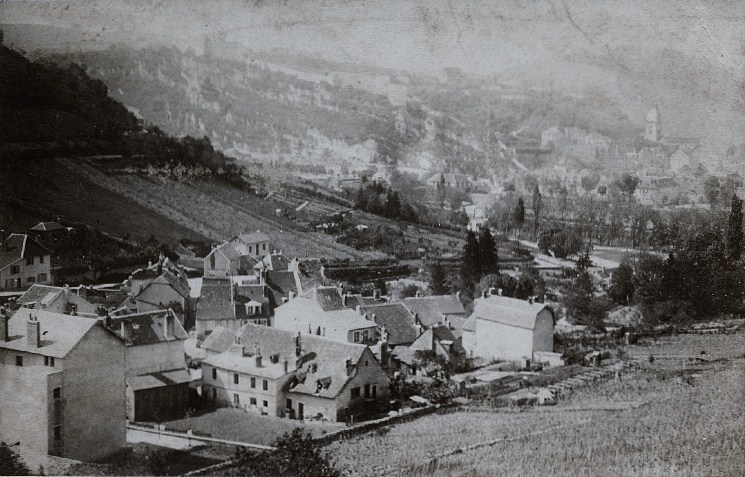 The area of Bregille, in 1870's. This area is located in Besançon (Doubs, France)